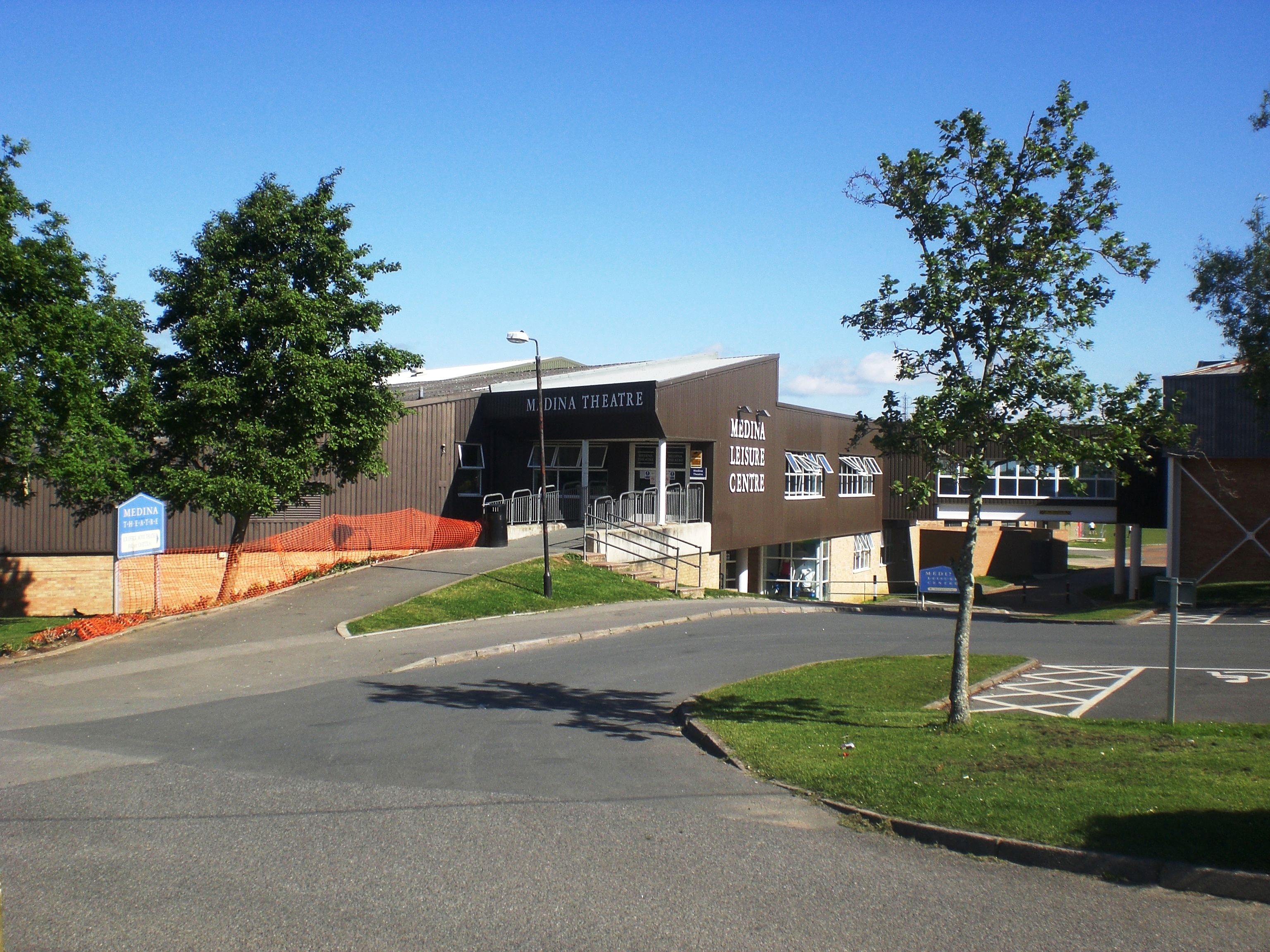 The Medina Leisure Centre and Medina Theatre, part of the Mountbatten Centre with Medina High School in Newport on the Isle of Wight.